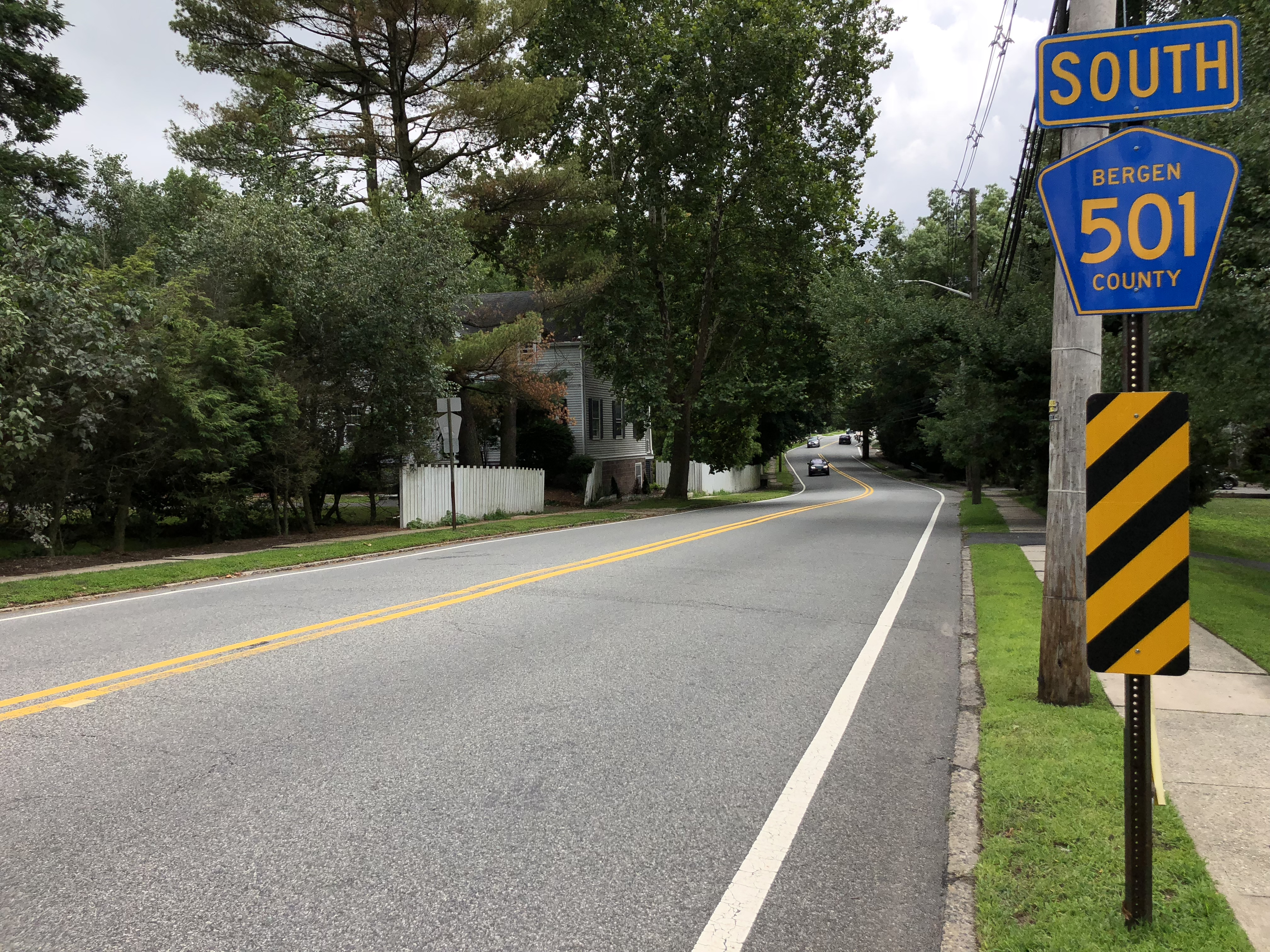 View south along Bergen County Route 501 (County Road) just south of Bergen County Route S33 (Anderson Street) in Demarest, Bergen County, New Jersey